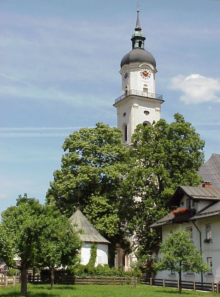 Kiefersfelden, view of the bell tower of Holy Cross new Parish Church from north-east (Pfarrer-Gierl-Weg).